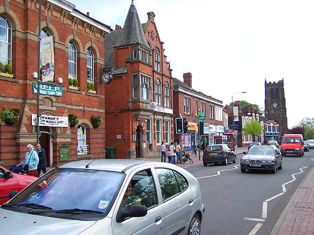 Heanor Derbyshire